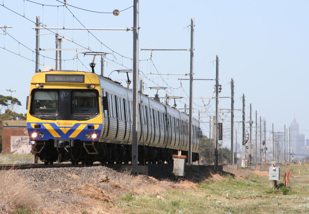 Comeng train near the former Galvin station on the Werribee line - Melbourne, Australia